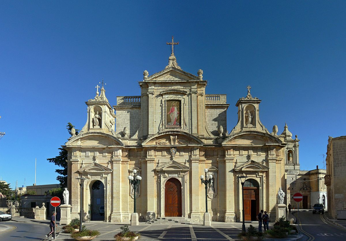 St. Paul parish church in Rabat, Malta